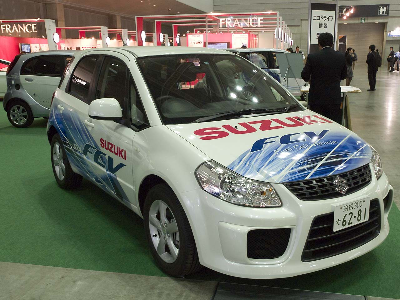 Suzuki SX4 FCV (fuel cell powered vehicle), shown in Automotive Engenering Exposition 2009 at Pacifico Yokohama.